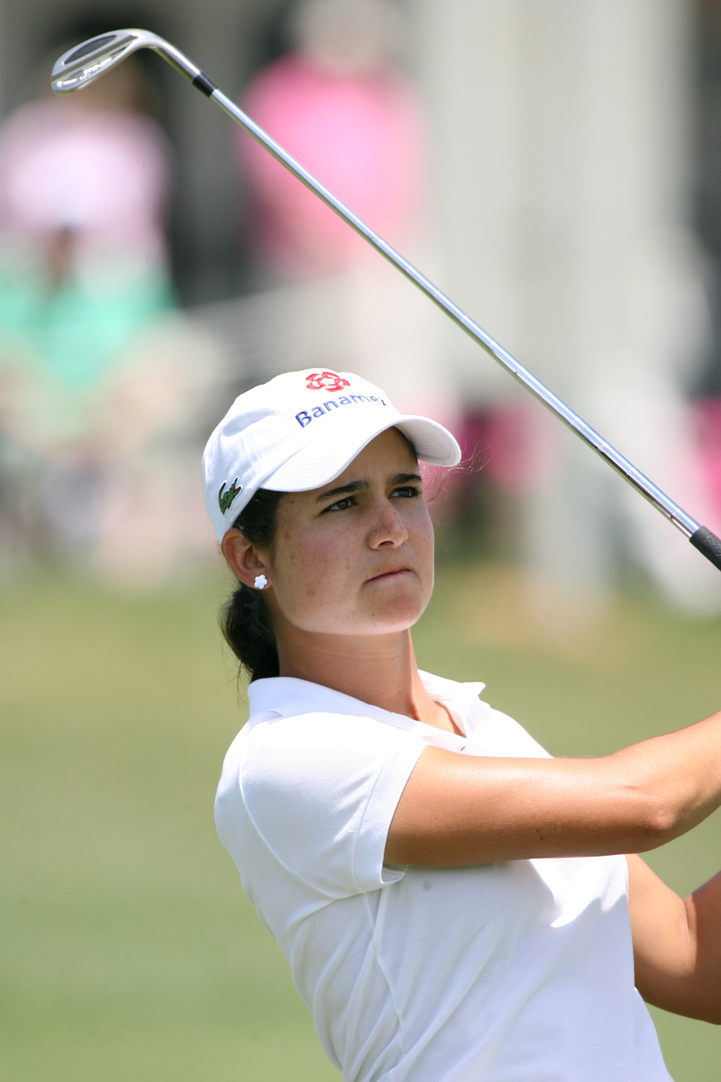 HAVRE DE GRACE, MD - JUNE 06: Lorena Ochoa (MEX) during practice before 2007 LPGA Championship held at Bulle Rock Golf Course, on June 6, 2007 in Havre de Grace, Maryland. (Photo by Keith Allison)